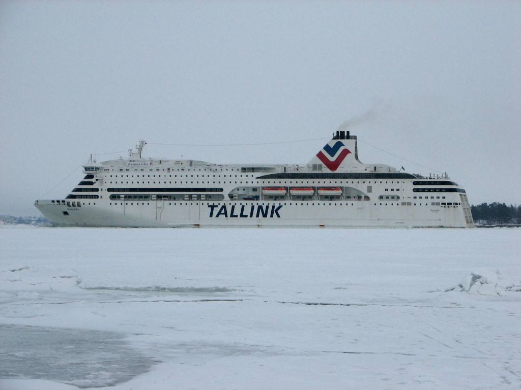 M/S Romantika IMO Number: 9237589 MMSI Number: 276486000 Callsign: ESRJ Length: 194 m Beam: 29 m